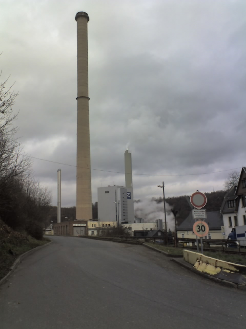 The ZPR at Blankenstein